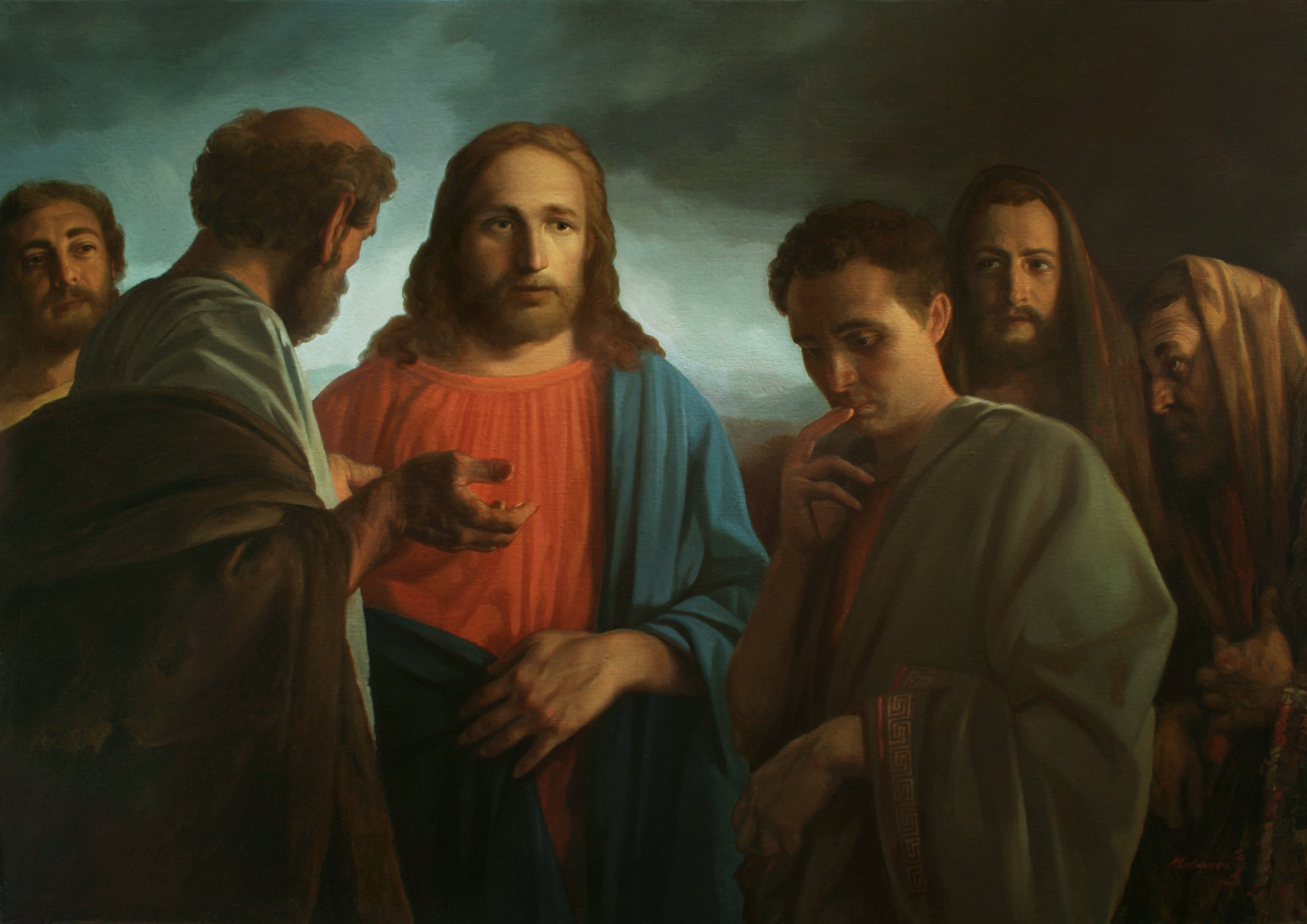 If you want to be perfect (Christ and the rich young man). 2010. Canvas, oil. 85 x 120. Artist A.N. Mironov